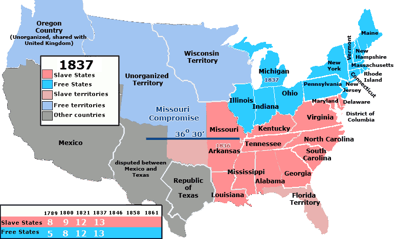 Map of the states and territories of the United States showing which areas of the United States did and did not allow slavery between January 1837 to March 1837. New York (1799) and New Jersey (1804) adopted laws gradually freeing enslaved people, but some people in these states remained enslaved until 1824 (NY) and 1865 (NJ). Territories and states which had not specifically banned slavery are colored red/pink.